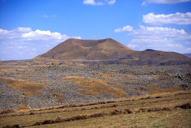 A blocky lava flow extends across the foreground from a pyroclastic cone of the Porak volcanic field, located along the Vardeniss volcanic ridge about 20 km SE of Lake Sevan. The volcanic field straddles the Armenia/Azerbaijan border, and lava flows extend into both countries. .